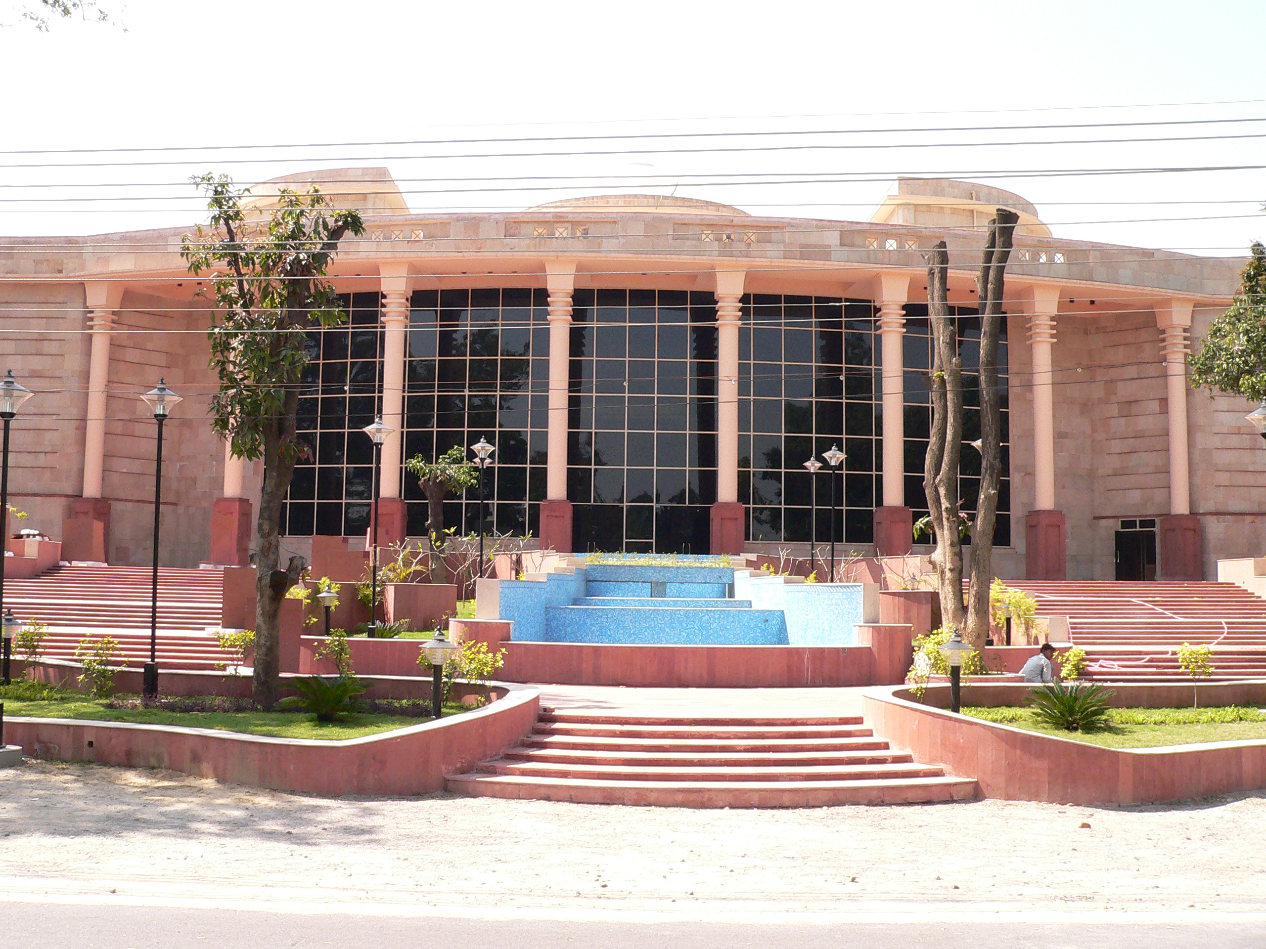 Central Library IIT Roorkee